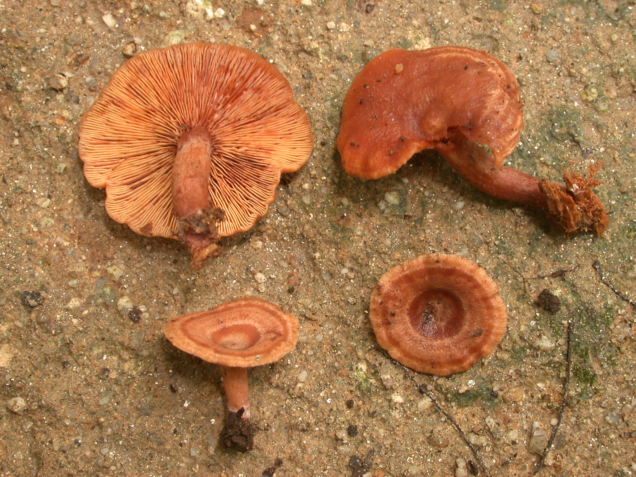 Fruit-bodies of Lactarius subzonarius, one of Japanese Candy-Cap. Photographed in Matsudo City, Chiba Pref.